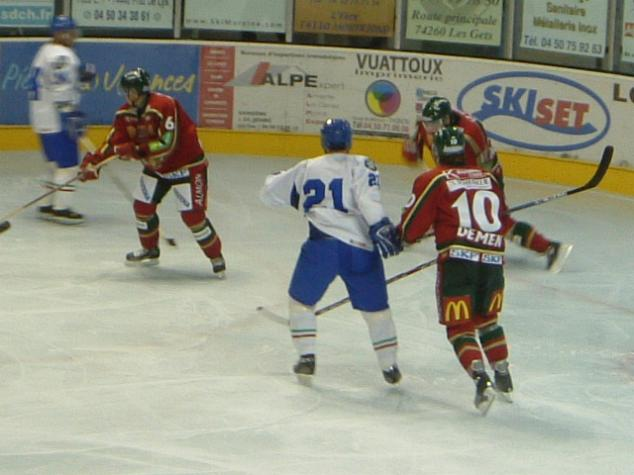 Richard Demen-Willaume, swedish ice hockey player